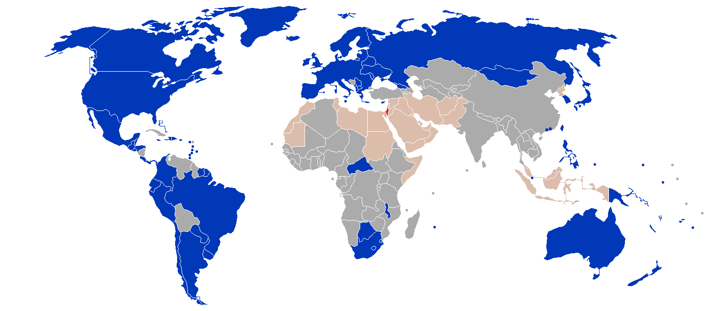 Israel Countries with visa-free access to Israel Confirmation from Israeli government is required